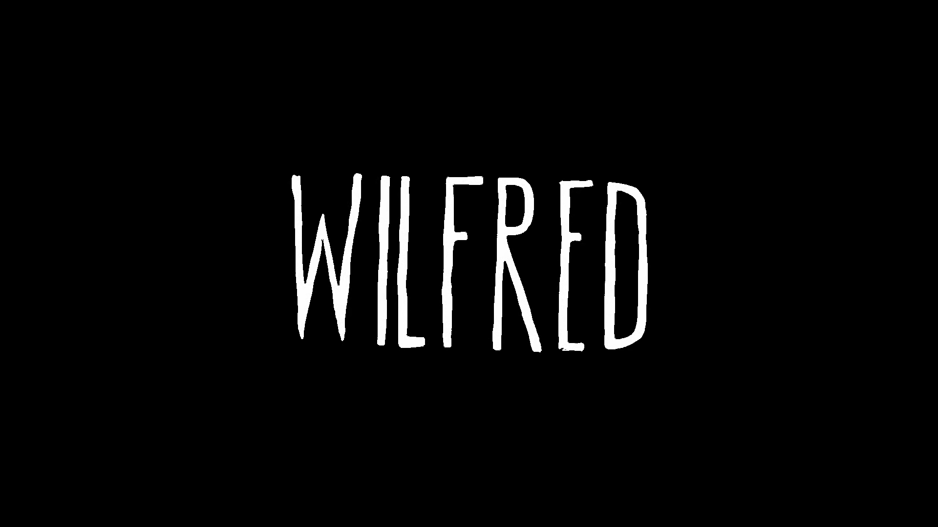 Logo for Wilfred (U.S. TV series)